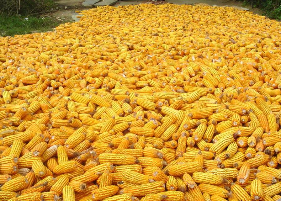 Cornheap